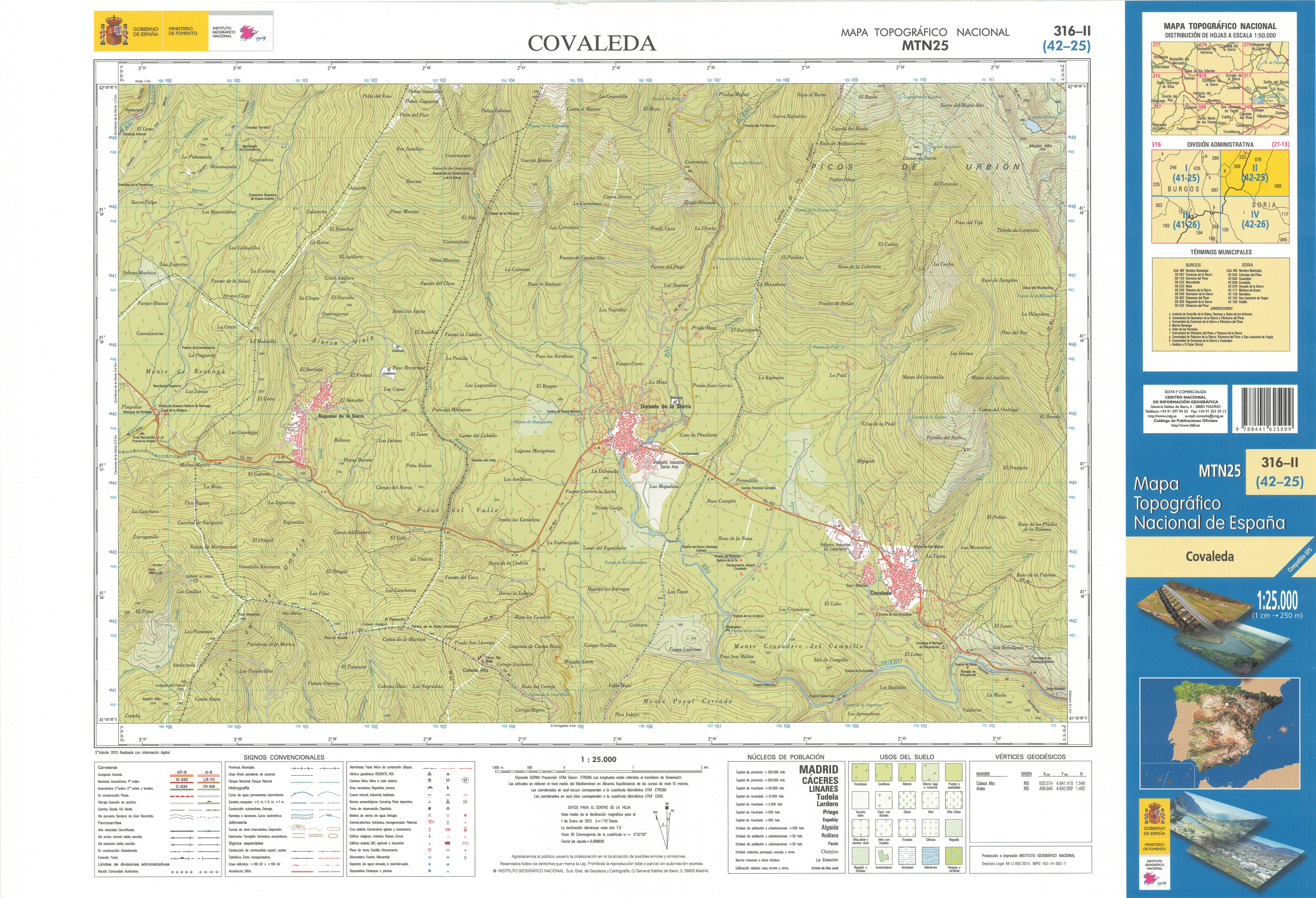 Fragment 0316c2 of the National Topographic Map of Spain in 2013 at a scale of 1:25000 printed and scanned with a resolution of 250 ppi. It shows Covaleda.